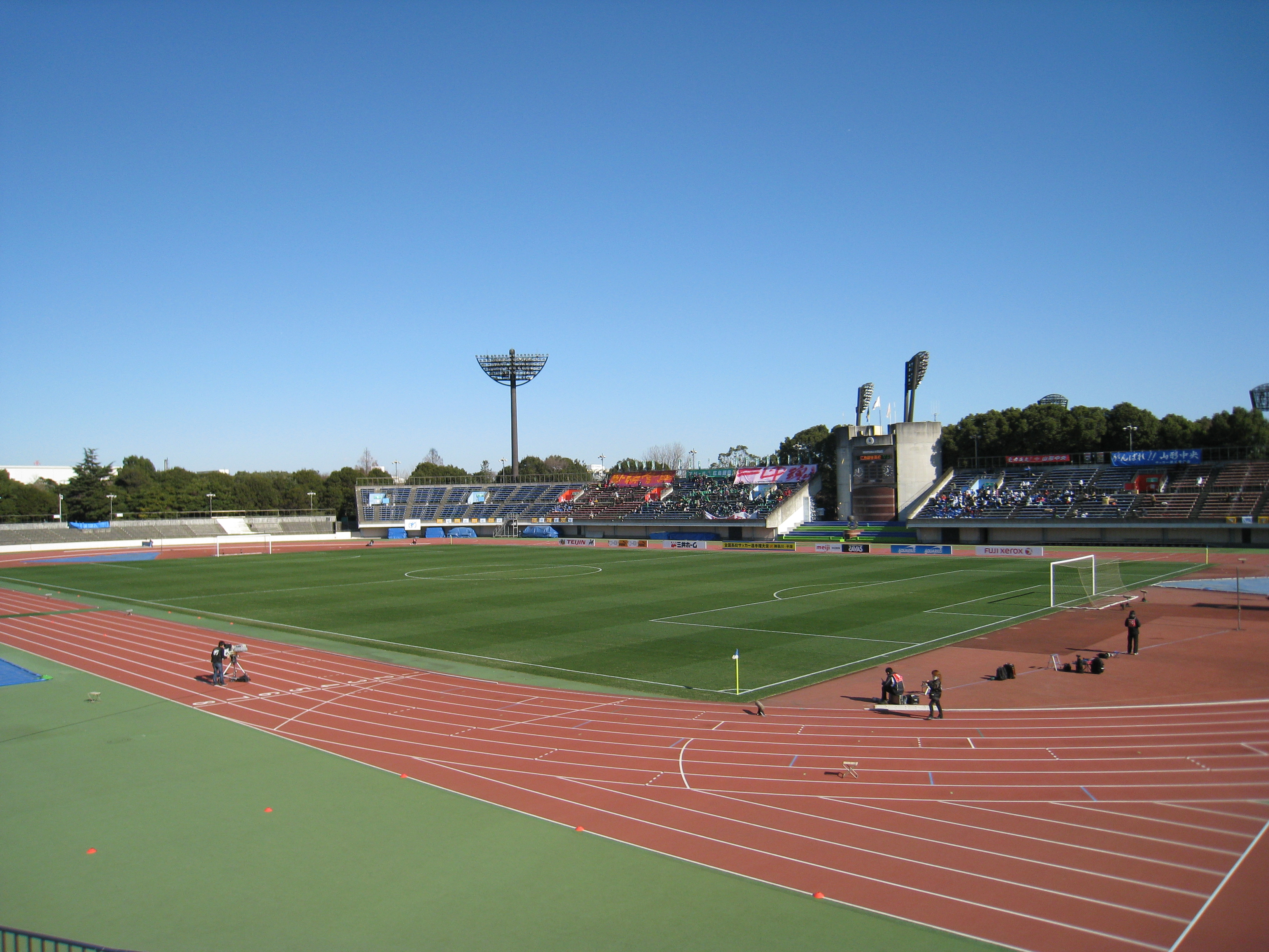 Hiratsuka Stadium. Hiratsuka-city,Kanagawa-Pref,Japan